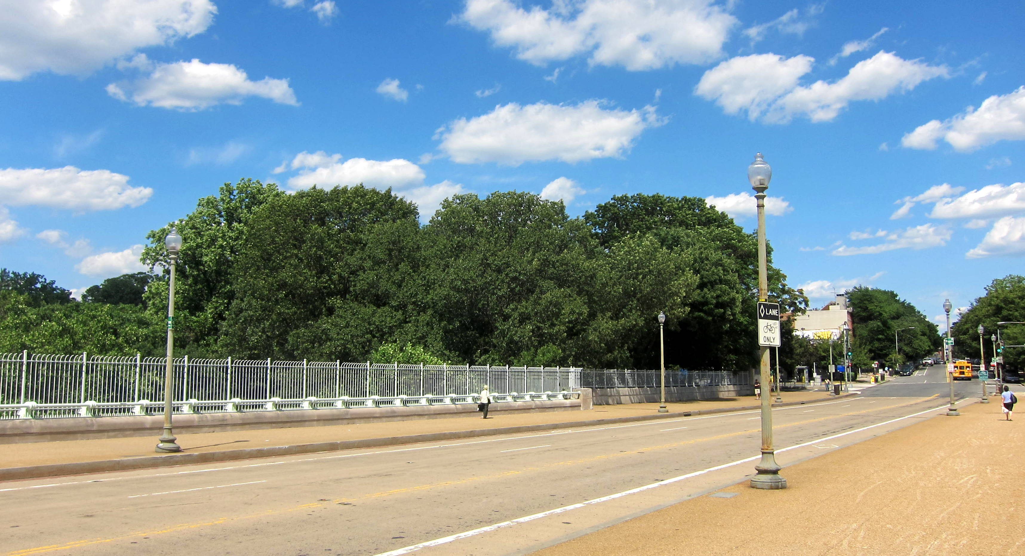 The Duke Ellington Bridge, which carries Calvert Street over Rock Creek and the Rock Creek and Potomac Parkway, located between the Adams Morgan and Woodley Park neighborhoods of Washington, D.C.